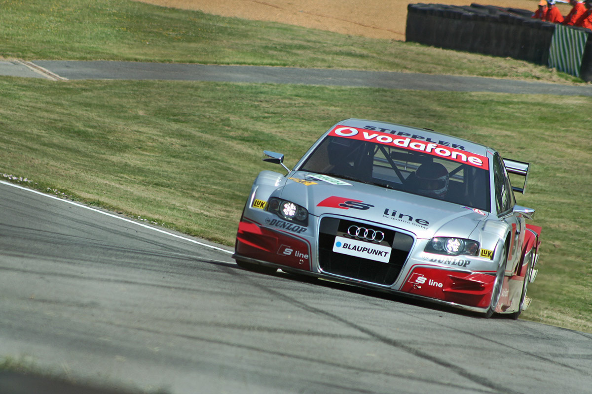 Frank Stippler driving for Audi in the 2006 Deutsche Tourenwagen Masters season.